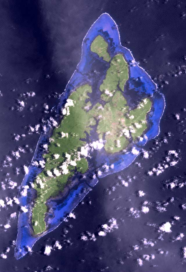 The raw satellite imagery shown in these images was obtain from NASA and/or the US Geological Survey. Post-processing and production by